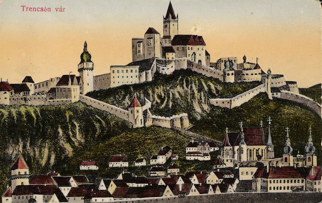 Postcard from 1900 of Trencsén in 1700s (Hungary, present Trenčín, Slovakia) with the view of the Trencsén Castle before it was burnt down.